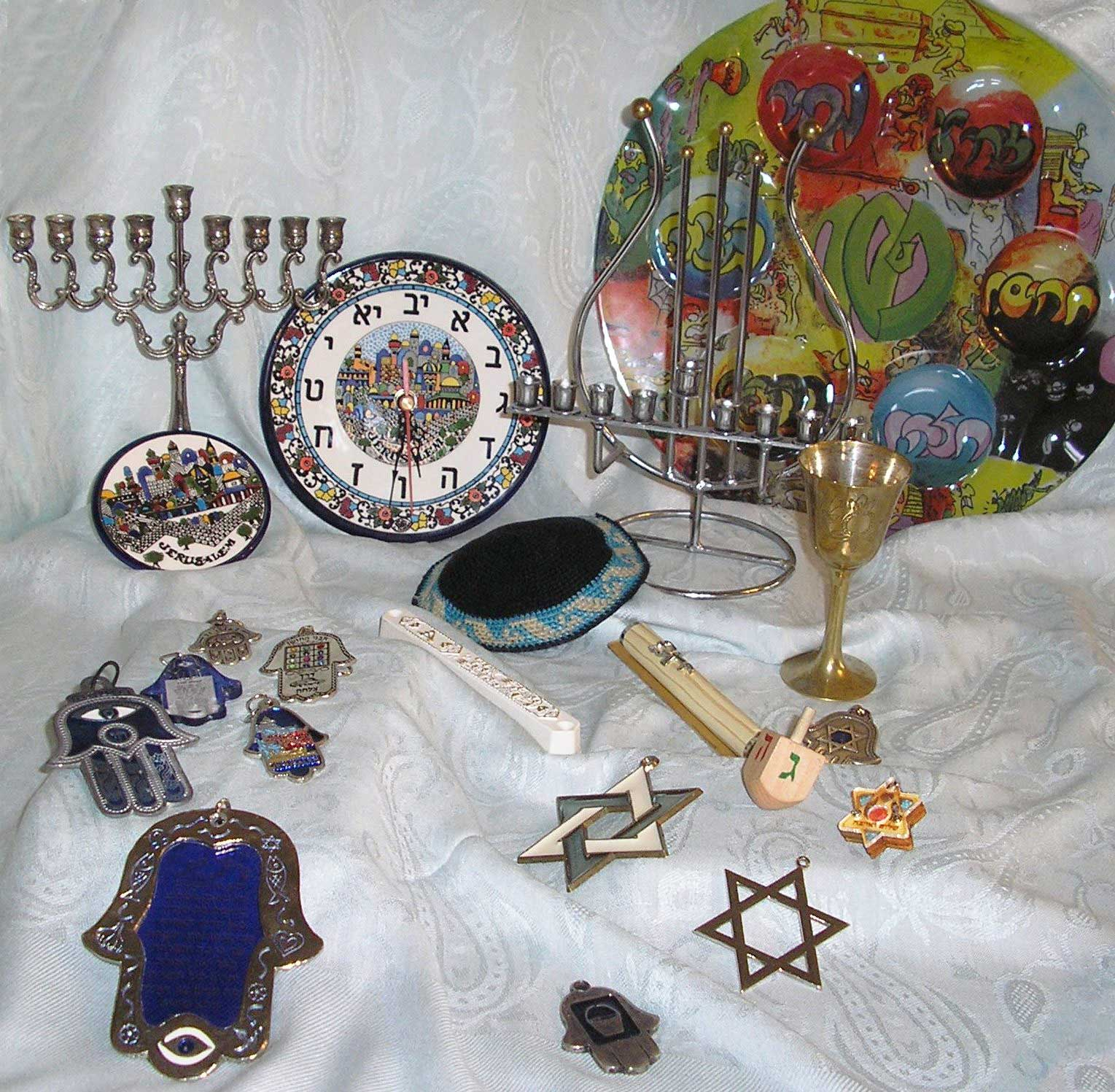 Jewish symbols : Star of David, Hanukiah, Khamsa, Kippah, Mezuzah, Dreidels, Passover plate, Kiddush cup, Jerusalem picture...